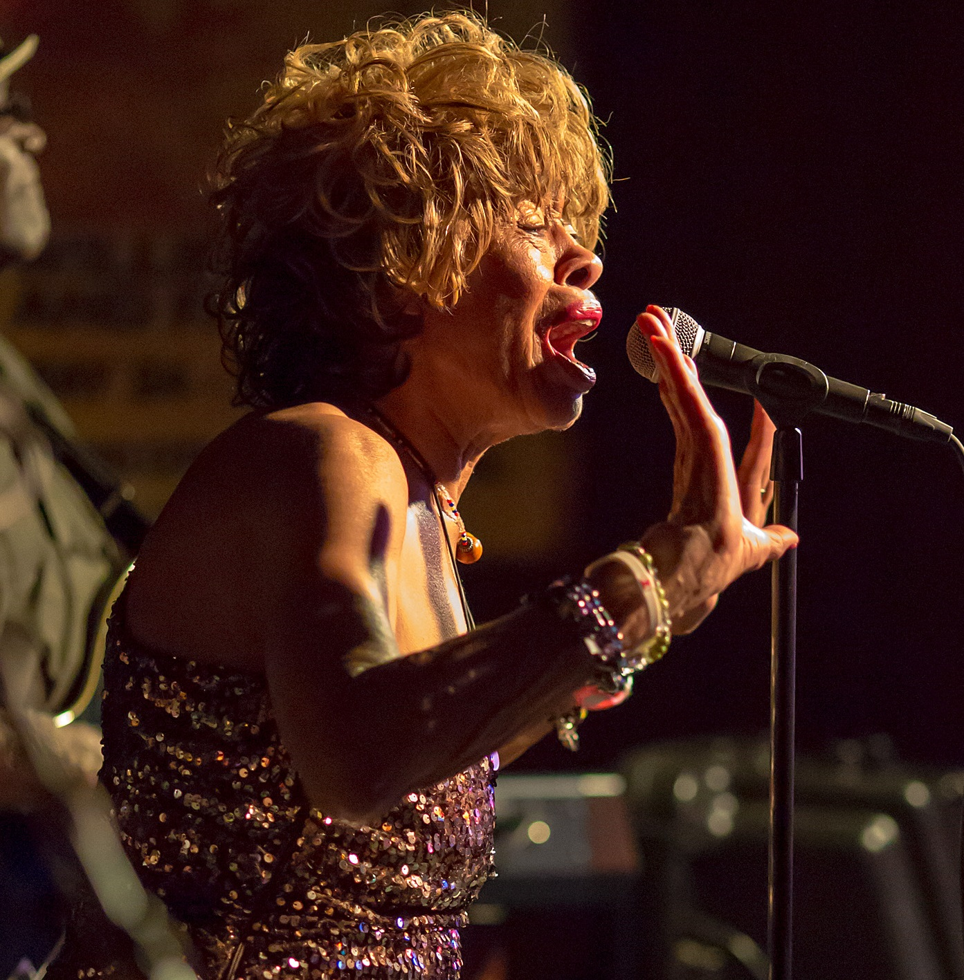 Lavelle White playing at Poodies Roadhouse in Spicewood, Texas in 2014